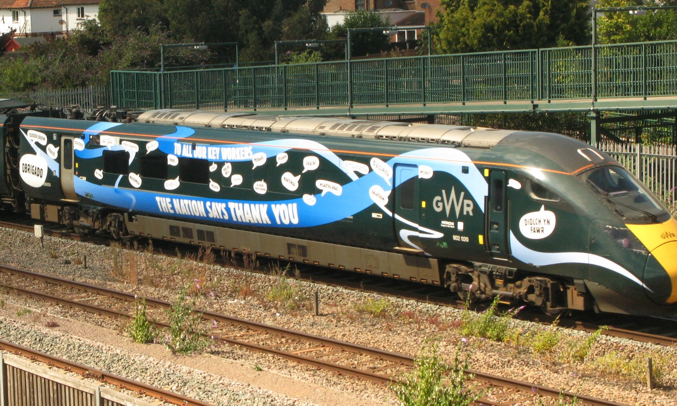 The driving cars of Great Western Railway's InterCity Express Train 802020 carried addititonal vinyls from 5 July 2020 to say 'to all our key workers ... the nation says thank you' along with 109 speech bubbles that say 'thank you' in 116 different languages! This is the first class end seen leaving Taunton westbound two weeks later.